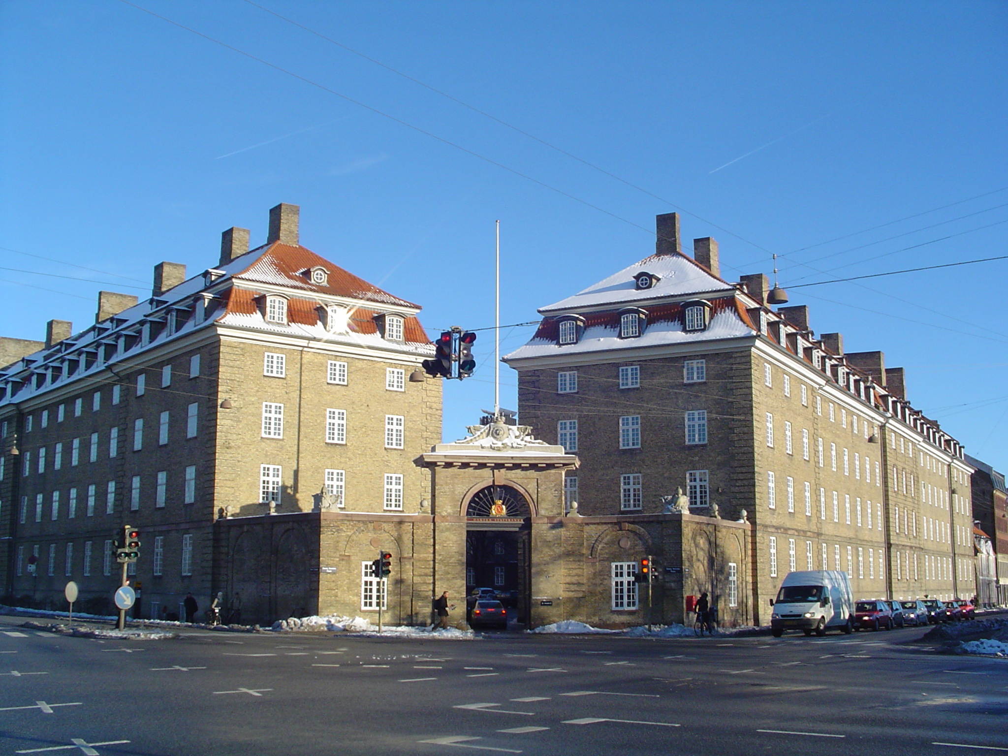 Danske Statsbaner headquarters. Photo by user:Thue on 26/1-2006.